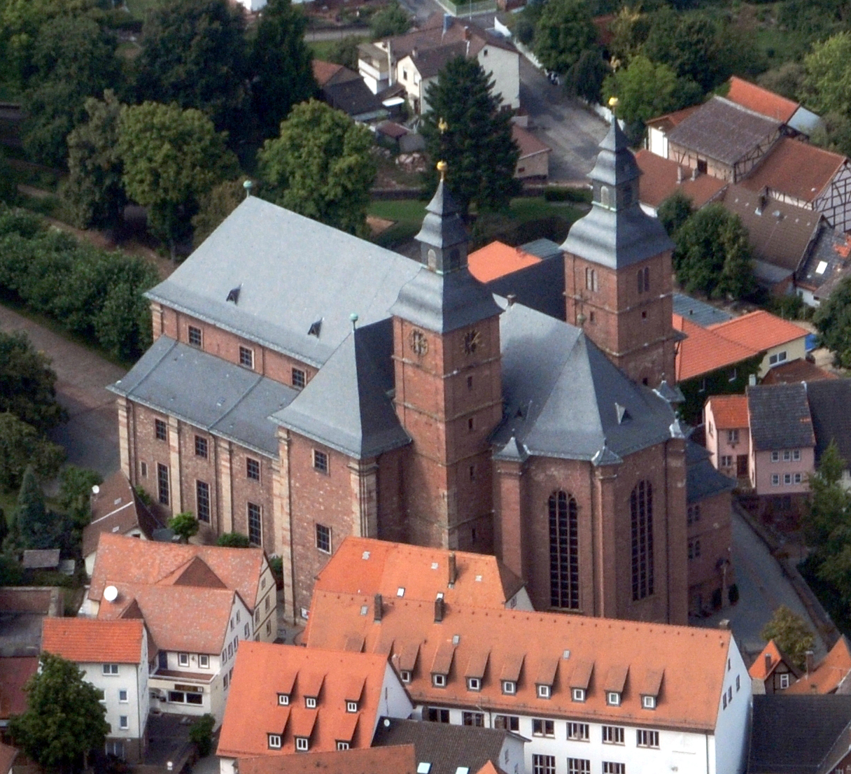 Walldürn, Baden-Württemberg, Germany, aerial photograph